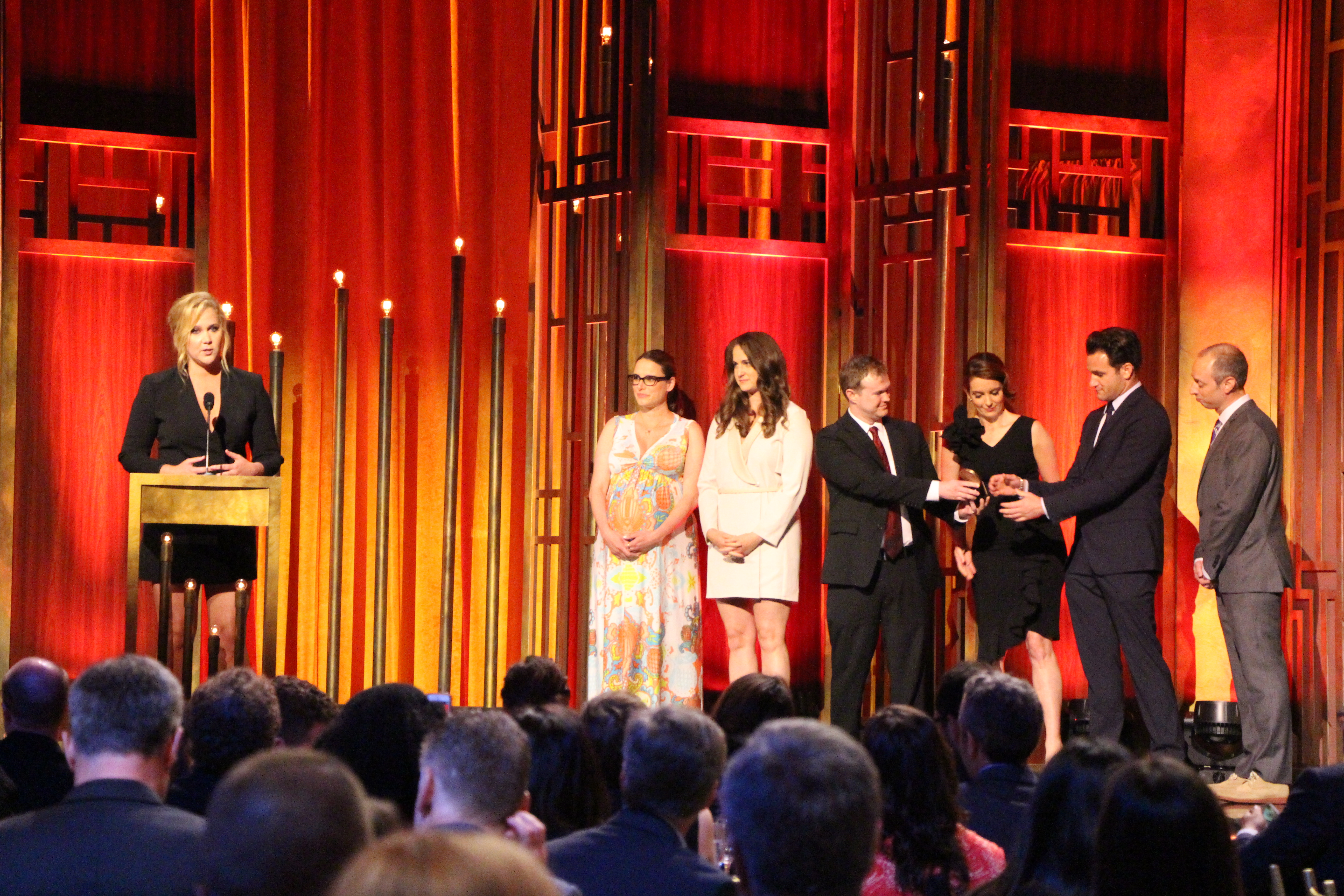 Executive Producer Amy Schumer accepts the Peabody for her show, Inside Amy Schumer. She is joined on stage by (from left to right) Jessi Klein, Kim Caramele, Dan Powell, Tina Fey, Kevin Kane and Steve Ast.